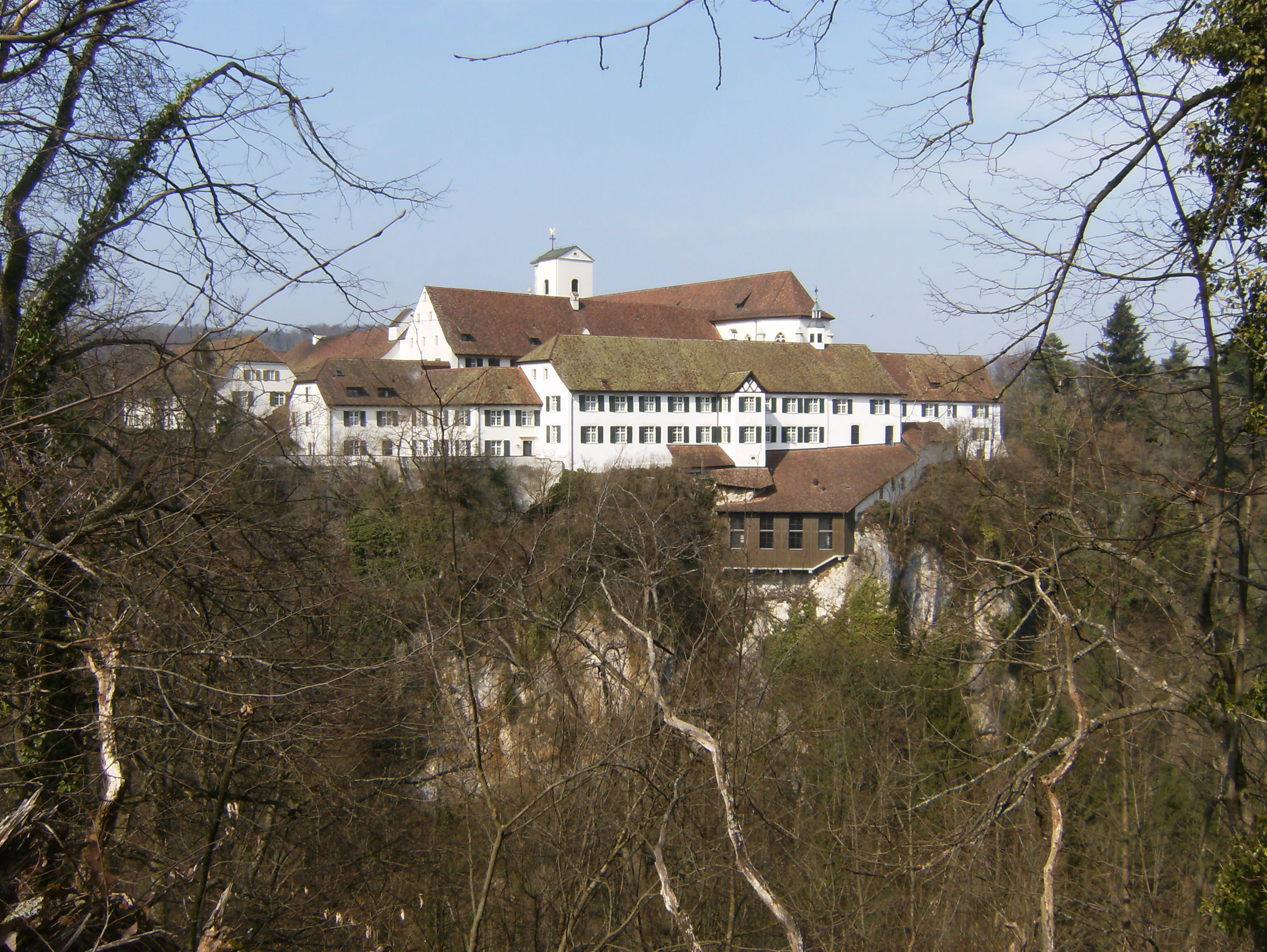 Mariastein SO